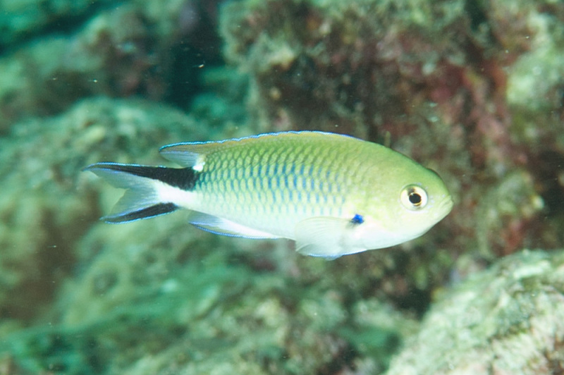 Richardson's Damsel, Pomachromis richardsoni, at Hicks Reef near Lizard Island, Great Barrier Reef, Queensland.